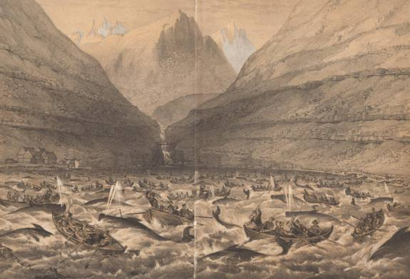 Whaling in the Faroe Islands, Vestmanna 17 June 1854